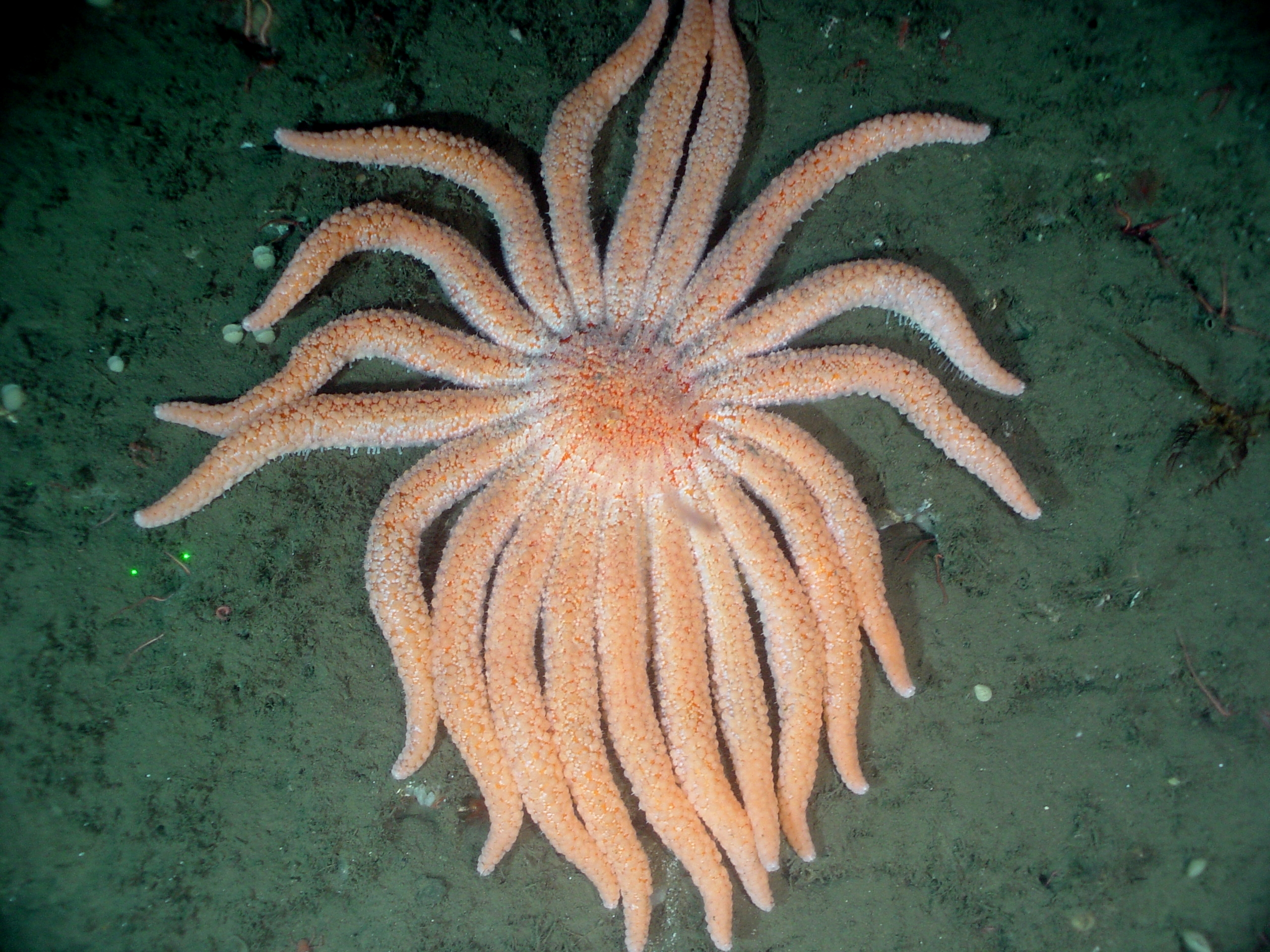 Orange sunflower starfish. Washington, Olympic Coast NMS.